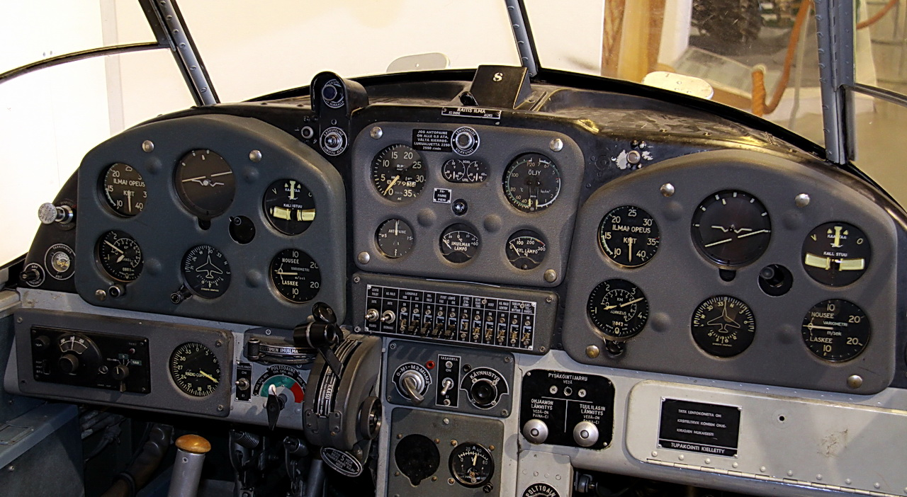 Saab 91D Safir (SF-8) cockpit in Aviation Museum of Central Finland.